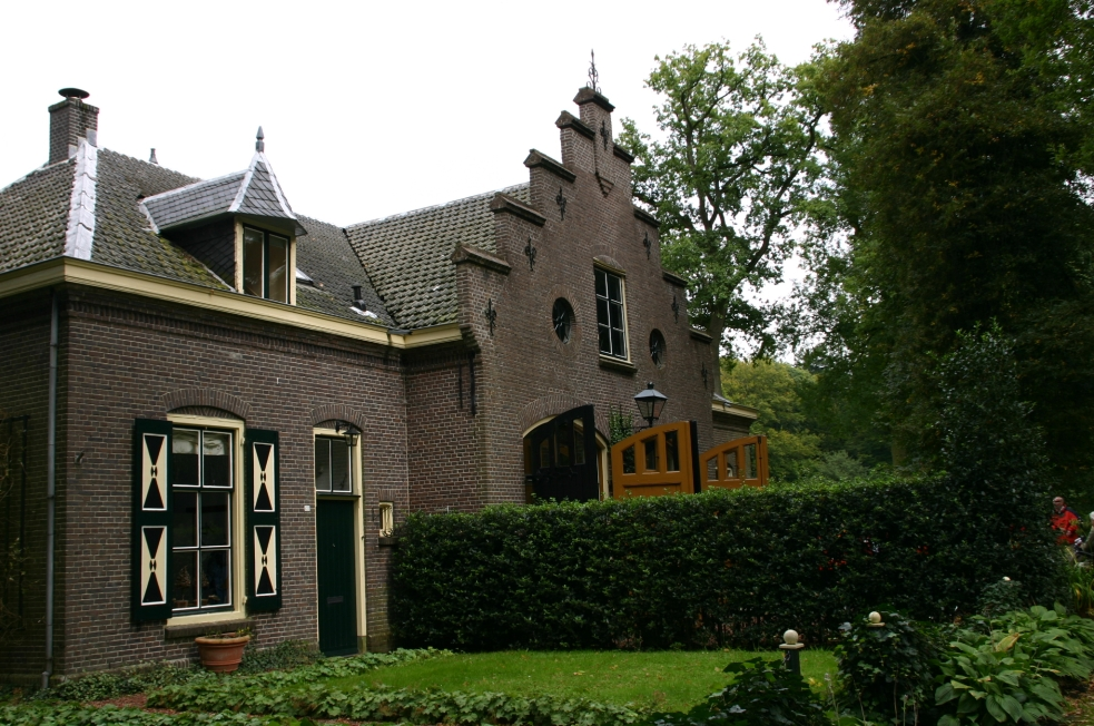 Koetshuis Prattenburg